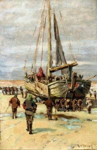 Bomschuit op het strand